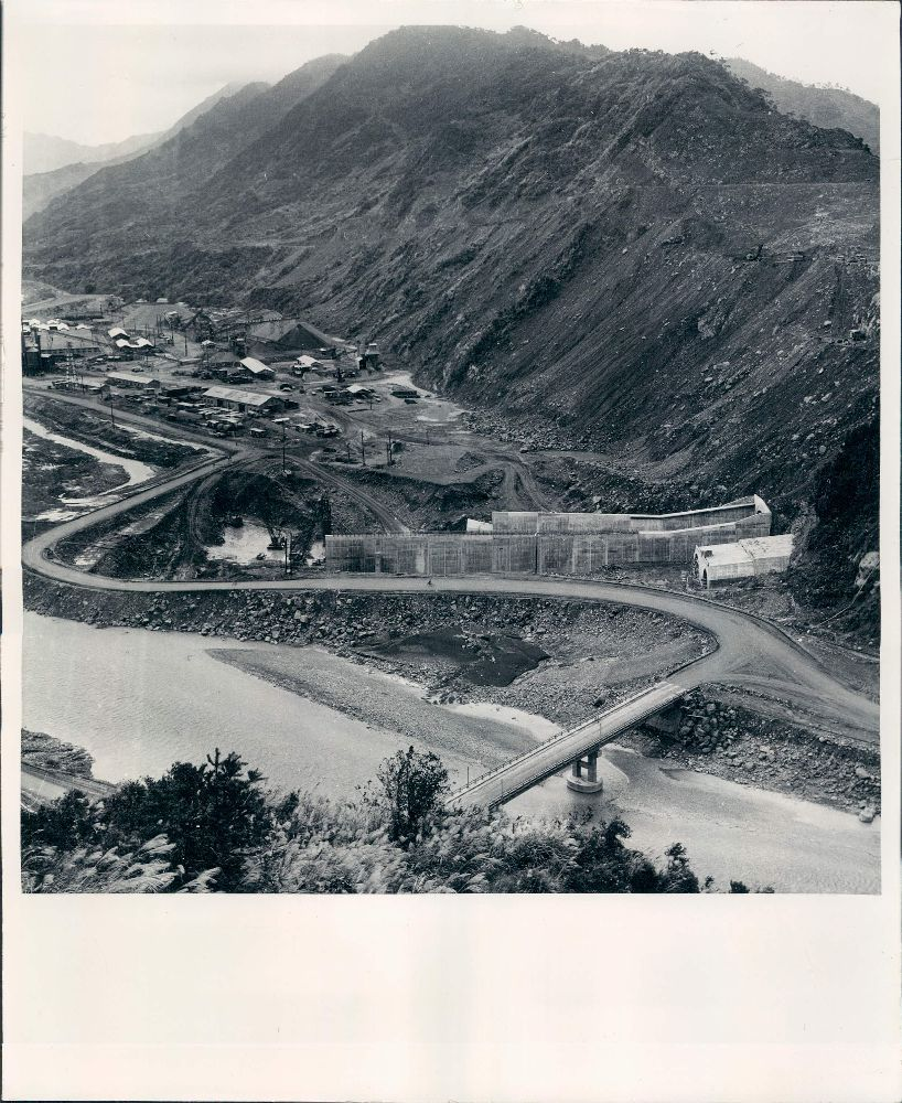 TAIWAN'S SHIMEN DEVELOPMENT TAKES FORM.